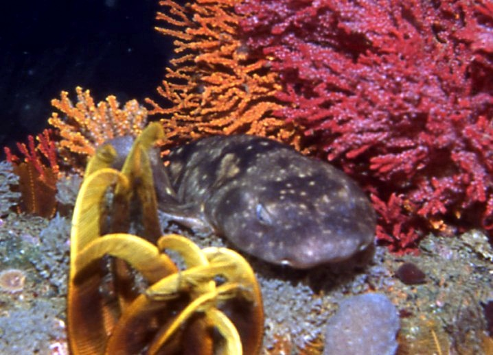 a photo of the dark shyshark, Haploblepharus pictus taken in False Bay off the Cape Peninsula of South Africa is 28m of water using a Nikonos V camera